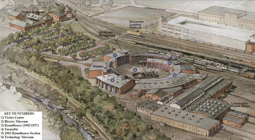 View of Steamtown National Historic Site (from an illustration by Richard Schlecht) is taken from a pamphlet for Steamtown by the National Park Service of the U.S. Department of the Interior and as U.S. government work cannot be copyrighted. Modified by User:Ruhrfisch in August 2005. My modifications licensed under the GNU Free Documentation License.